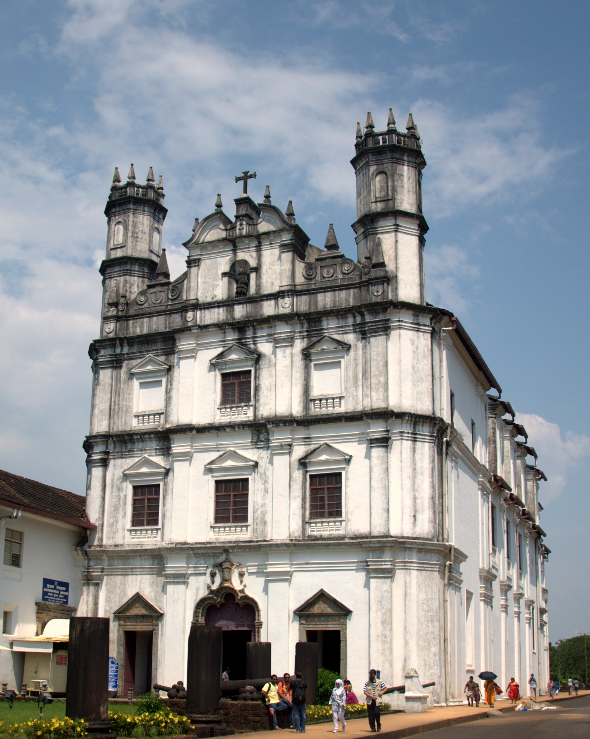 Church and Convent of St. Francis Assisi